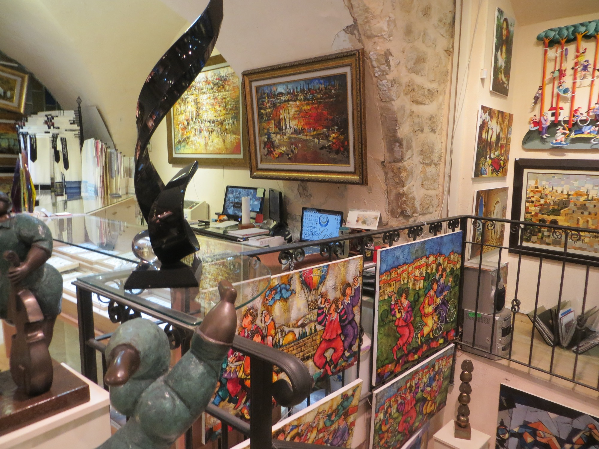 Geography of Israel